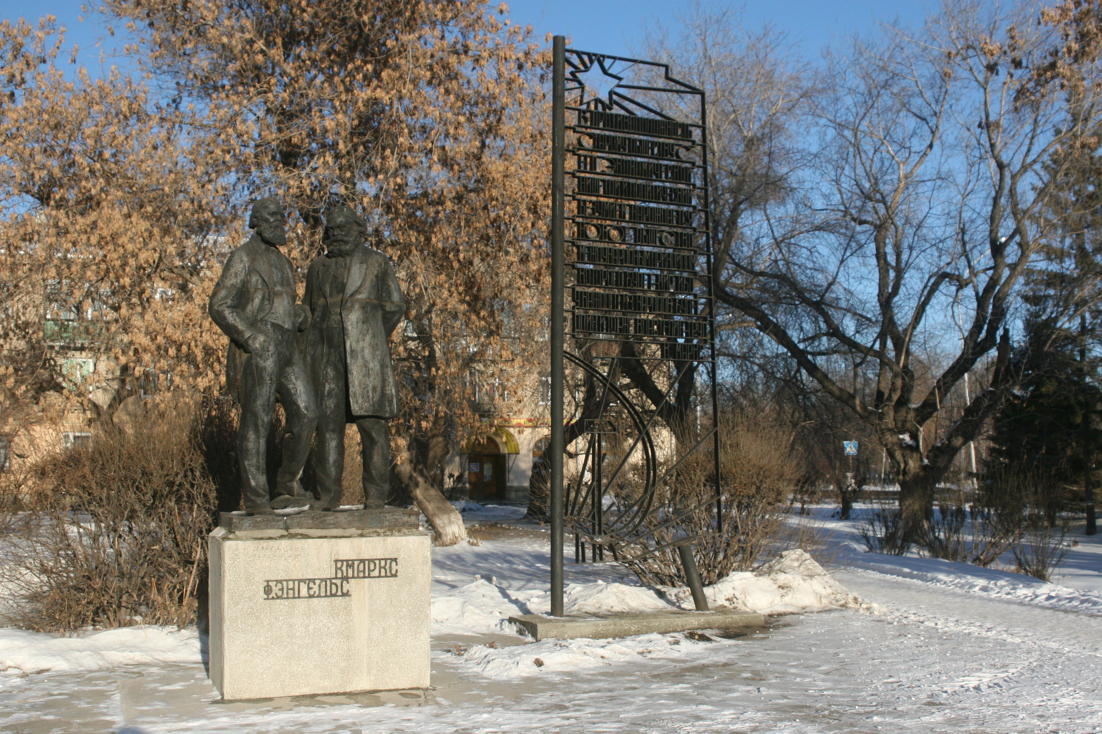 The memorial to K. Marx and F. Engels in the square on Borba st., Kopeysk, Chelyabinsk oblast', Russia